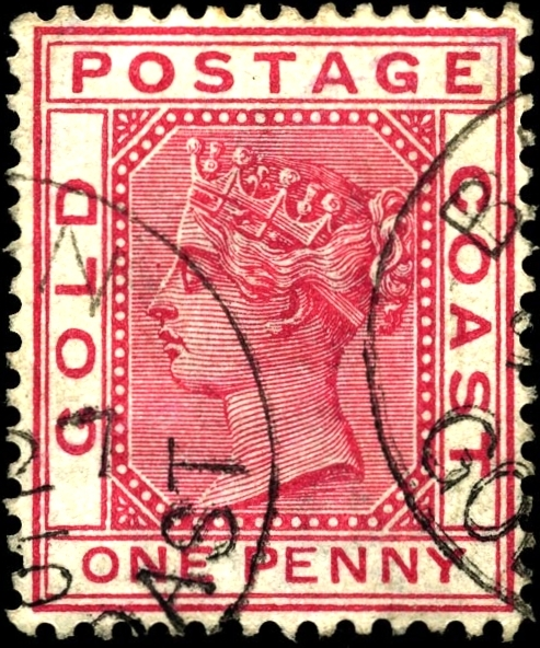 Gold Coast 1p stamp of 1884, circle cancelled in 1885. SG12.